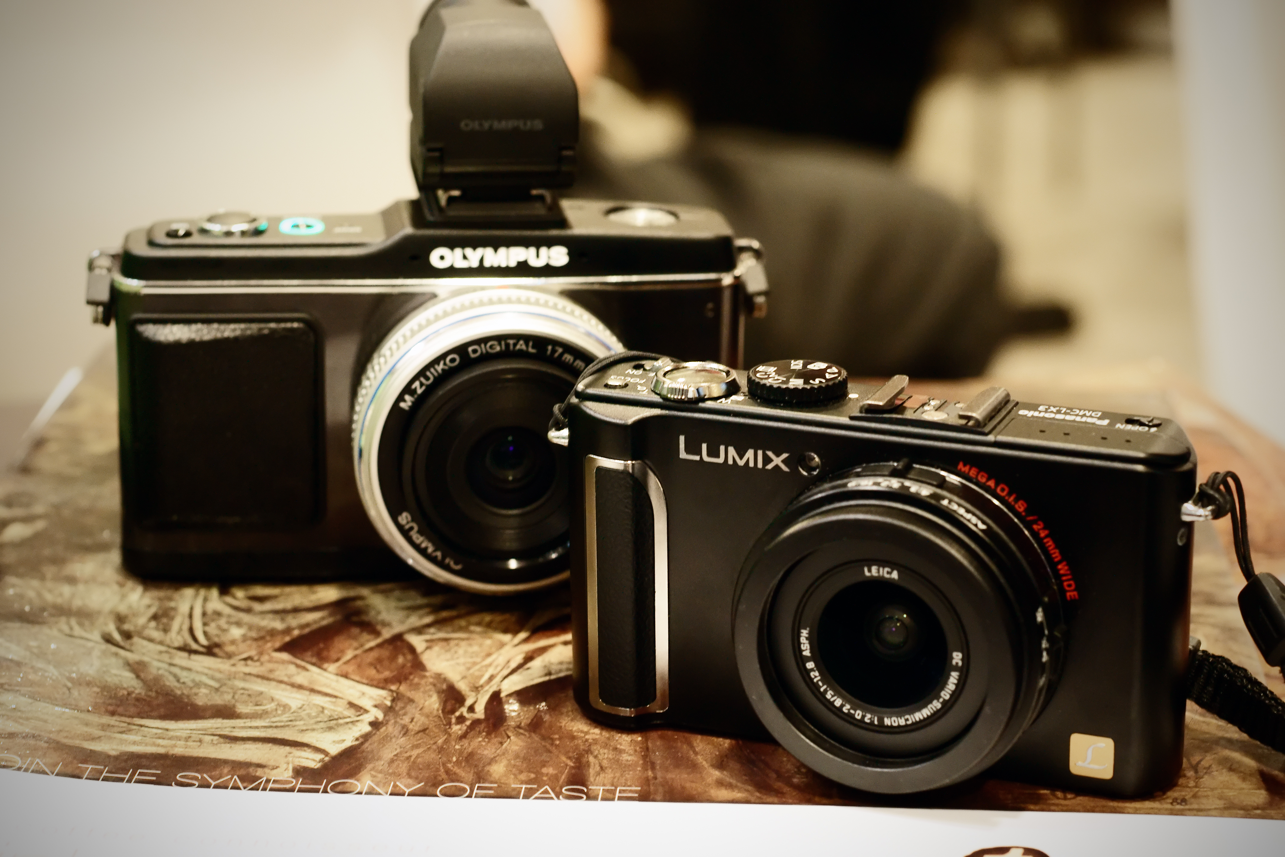 Olympus E-P2 Preview and Panasonic Lumix DMC-LX3